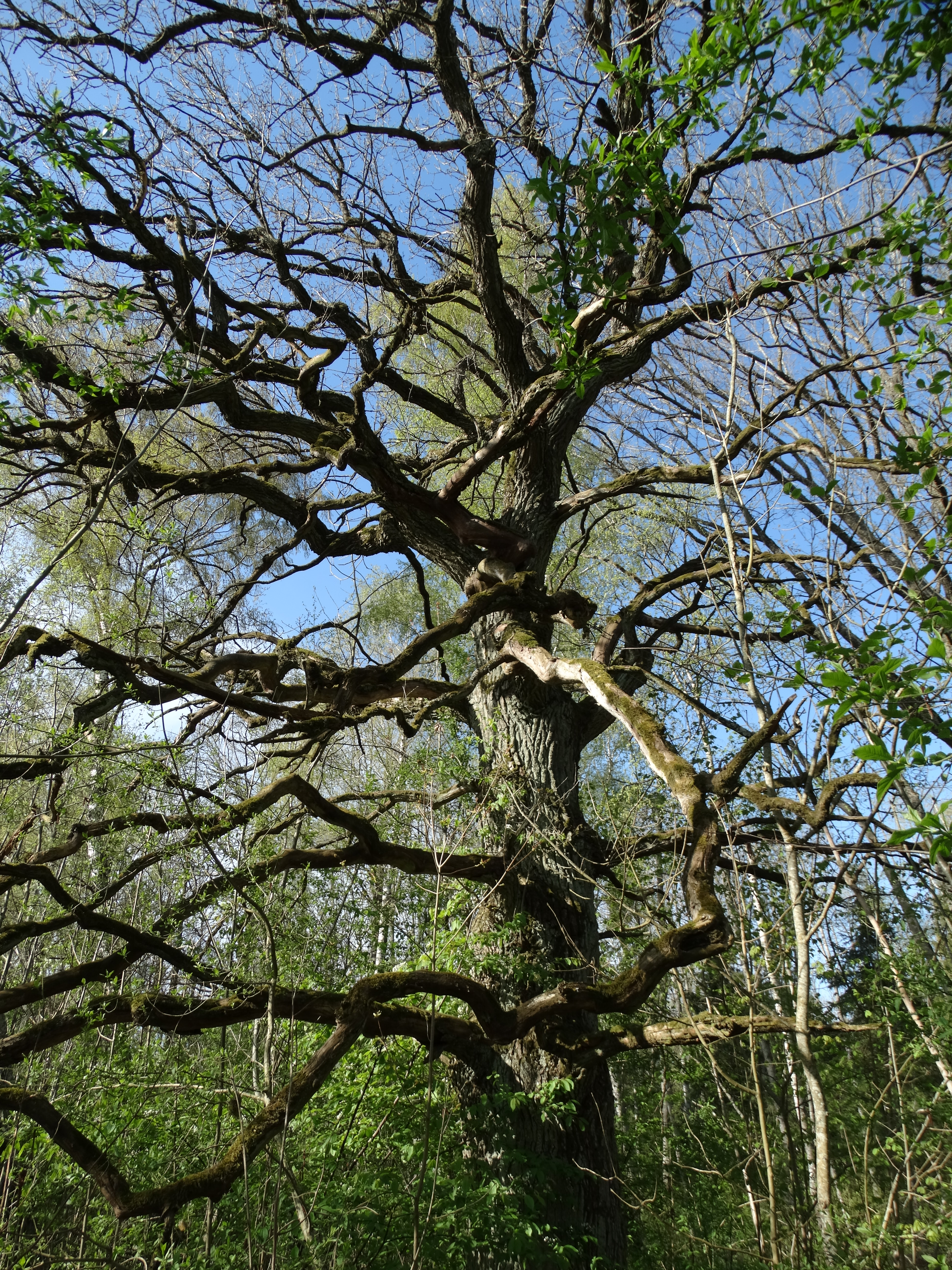 Radviloniai Oak, Radviliškis District, Lithuania